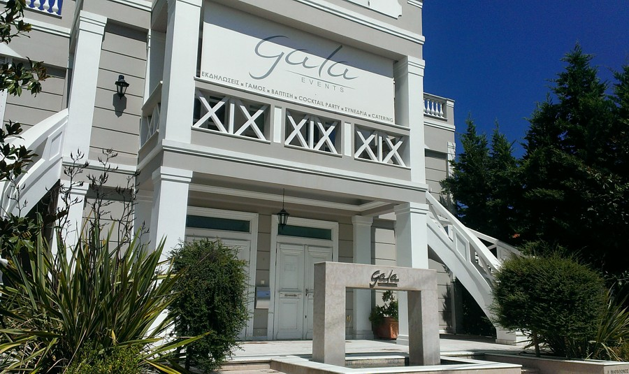 gala drosia